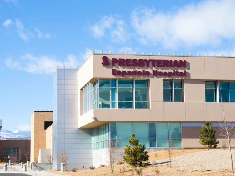 The Presbyterian Hospital in Espanola, Belongs to me in it's entirety, taken in March of 2013.